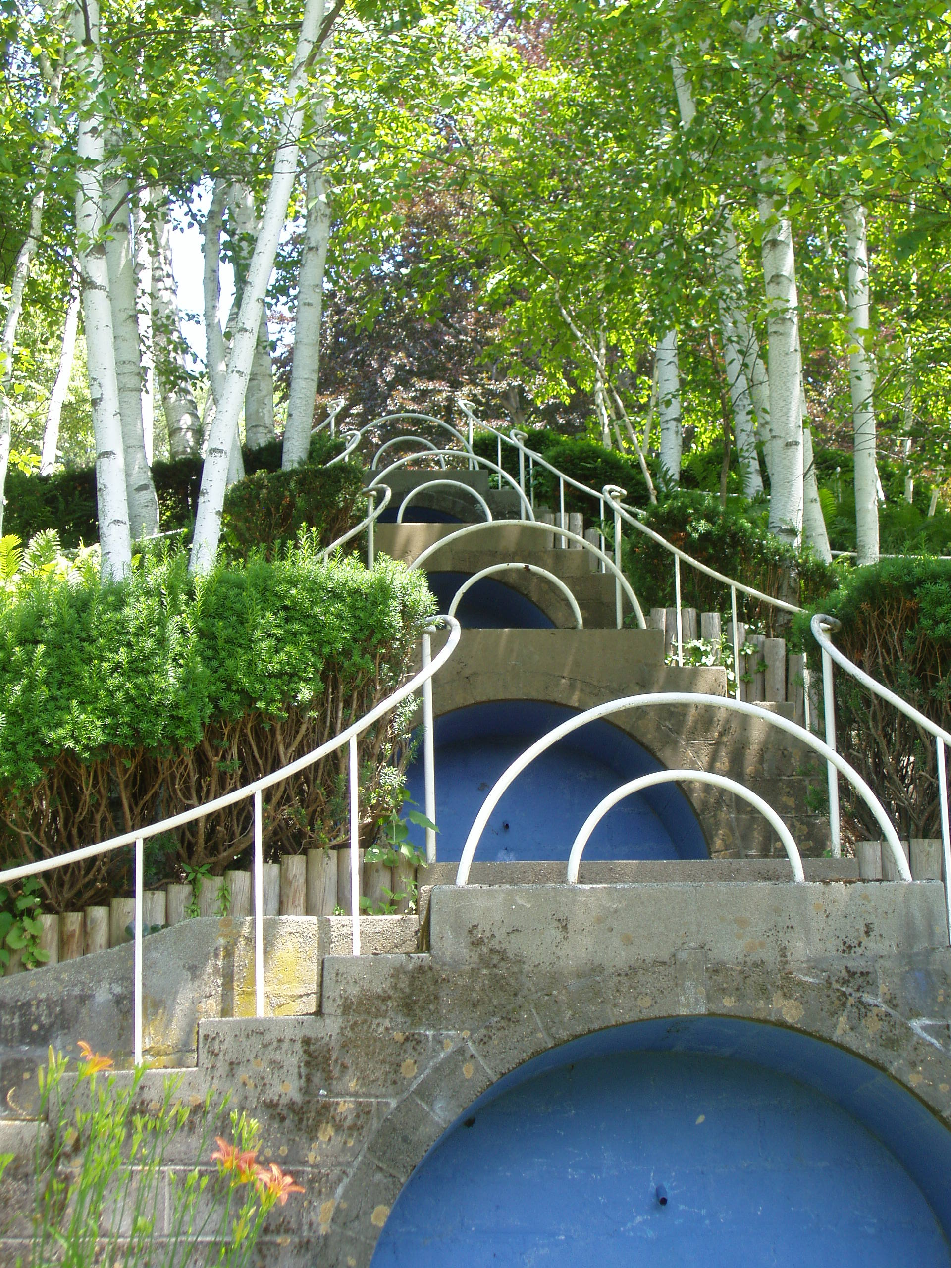 Naumkeag, Stockbridge, Massachusetts, USA - Blue Steps designed by Fletcher Steele.